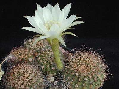 Echinopsis ancistrophora from seed collected at Campo Quijano, Km 30, Argentina (field number MN 201).